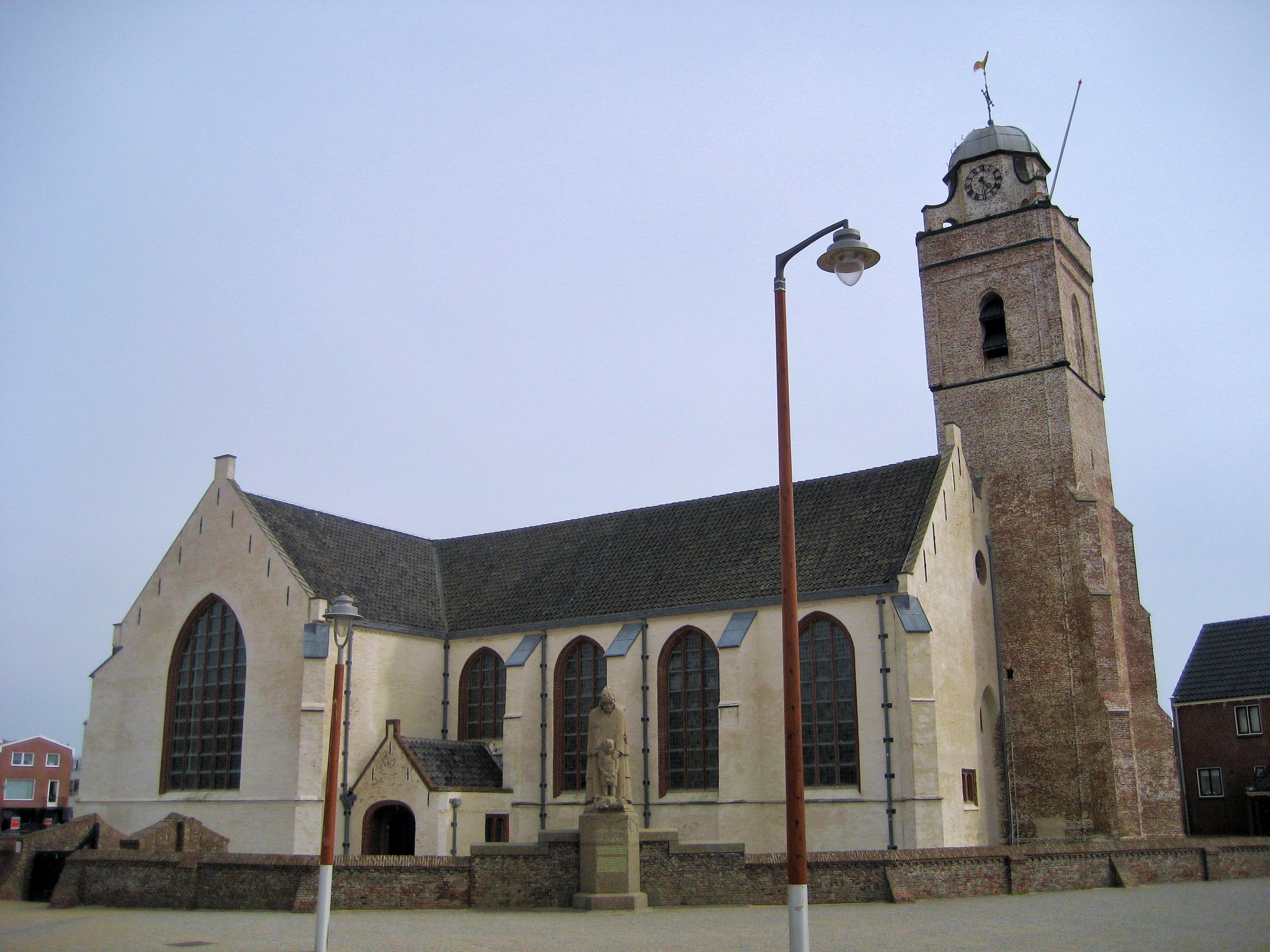 "White Church" ("Witte Kerk"), Katwijk (The Netherlands). Statue: fisher's wife with child, by Louis Simon Willem van der Noordaa